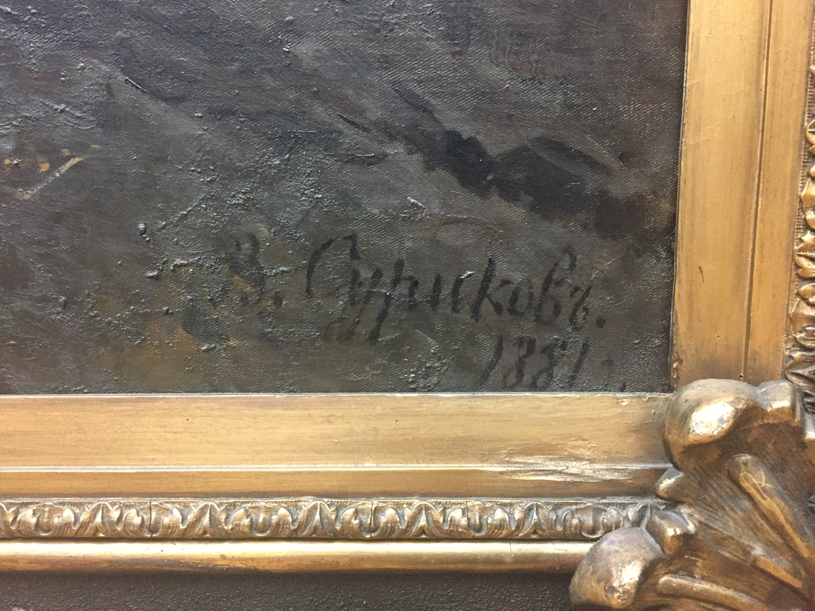 "Morning of streltsy's beheading" (artist's signature) by Vasily Surikov in the State Tretyakov Gallery